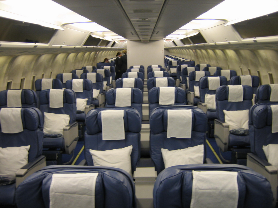 Cabin interior of a MAXjet Airways Boeing 767-200. I am an employee of the company and took this photograph myself. I reserve all rights to this photograph and release it to public domain.